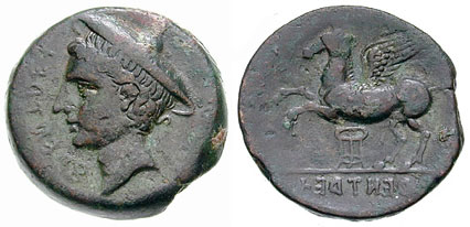 Frentani, Frentrum. Circa 250 BC. Æ 21mm (7.38 g). 8DENTDEY, head of Hermes left, wearing winged petasos 8DENTDEY, retrograde in exergue, Pegasos running left, tripod below. SNG ANS 129; BMC Italy pg. 69, 1; SNG Copenhagen 266; SNG Morcom 62; Laffaille 6. VF, glossy green and brown patina.